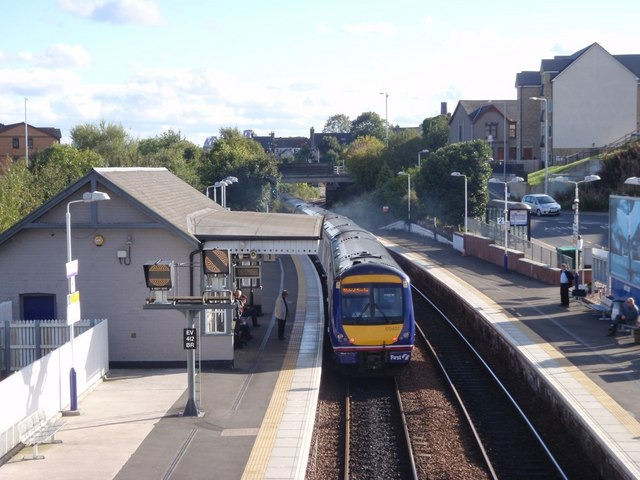 Inverkeithing Station Looking south